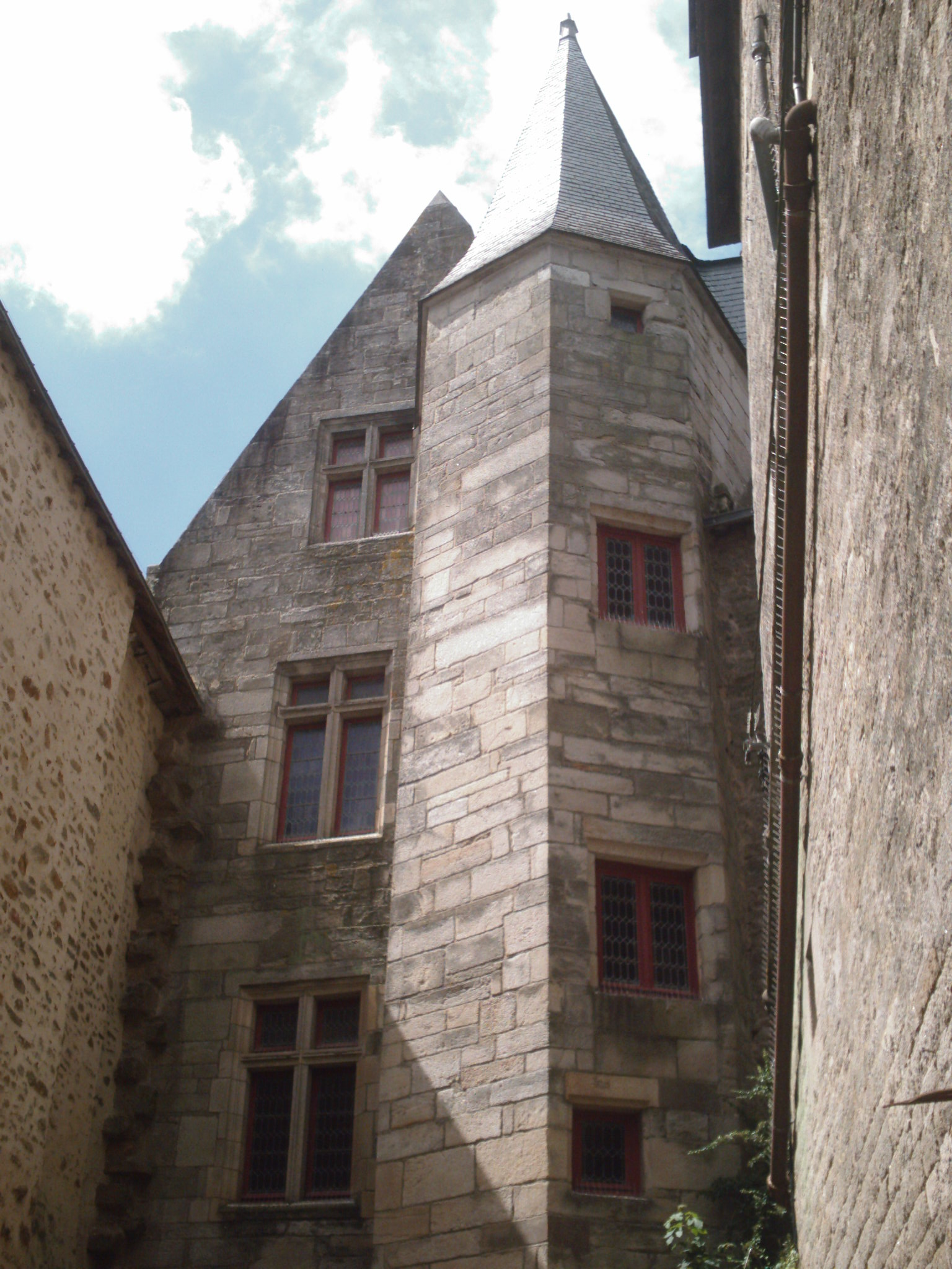 Château-Gaillard, city of Vannes' museum of history and archeology (Morbihan, France)